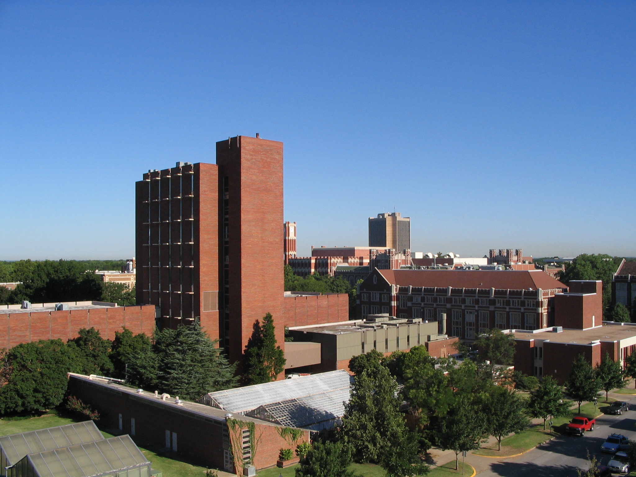 A view from the OMS parking garage looking NW over OU campus in Norman, OK.